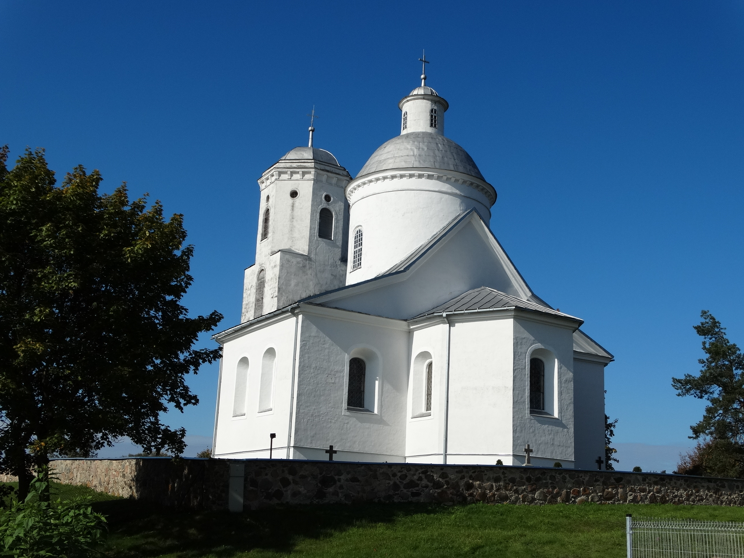 Roman Catholic Church, Kruonis, Lithuania